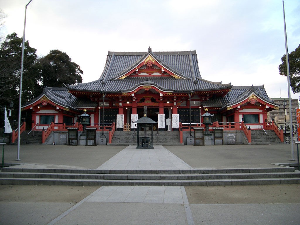 Jimokuji (Jimokuji, Aichi)